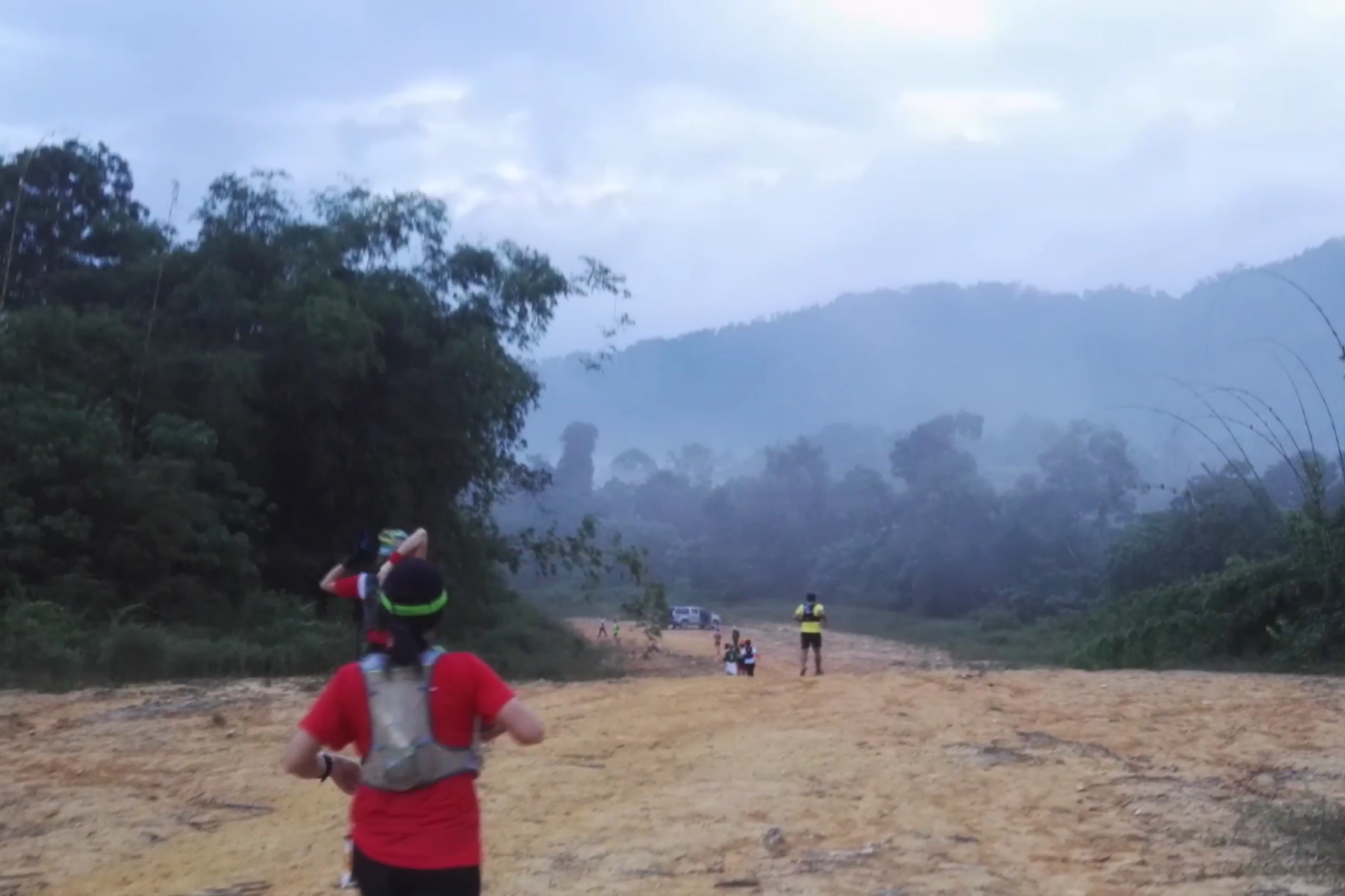 Trail running in Janda Baik on December 2017